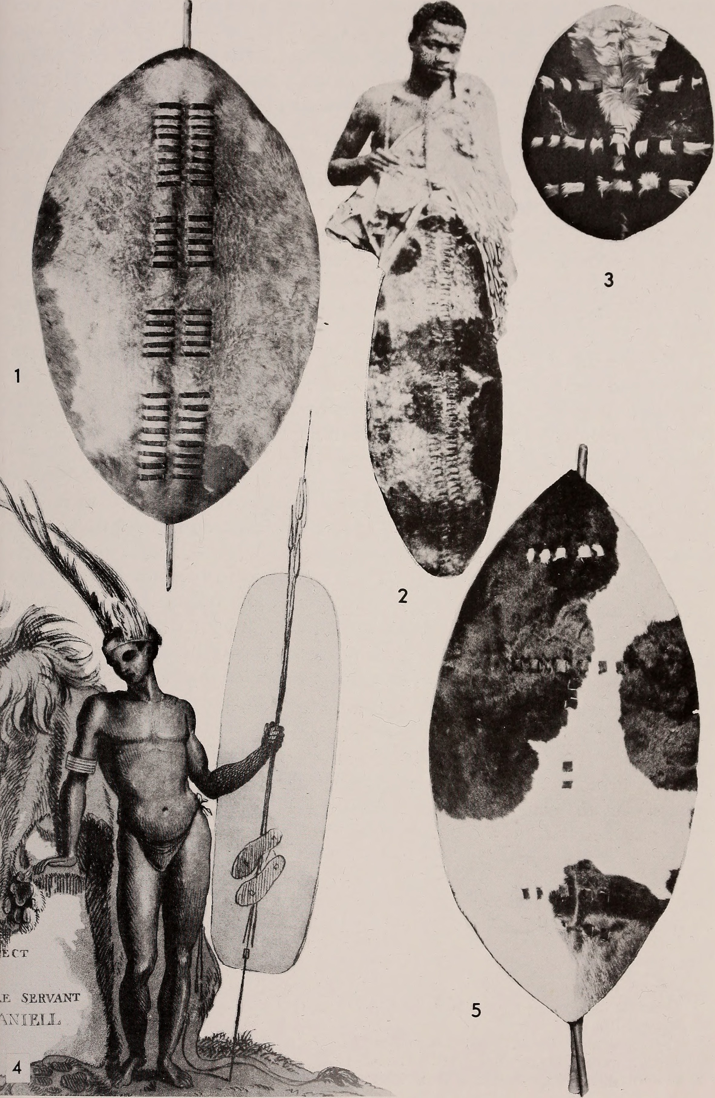 Various shields of the Xhosa1. ikhawu with staff 117 cm and hide 95 cm, 1935, Lusikisiki 2. Retainer of chief, with shield, 1870s, Queenstown, 3. ikhawu of a diviner, 1948, Mount Frere, 4. An early, square-shaped Xhosa shield, c.1805, 5. ikhawu with staff 127 cm and hide 108 cm, 1948, Mount Frere Title: Annals of the South African Museum = Annale van die Suid-Afrikaanse Museum Year: 1898 (1890s) Authors: South African Museum Subjects: Natural history Publisher: Cape Town : The Museum Text Appearing Before Image: THE MATERIAL CULTURE OF THE CAPE NGUNI 329 Text Appearing After Image: '